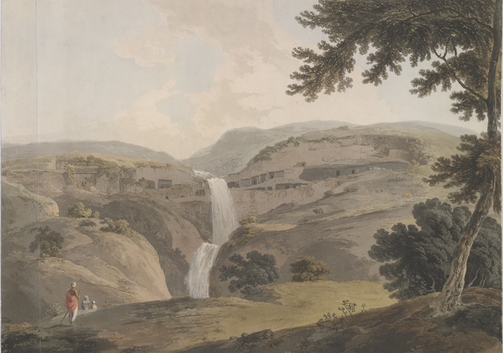 Painting of the mountain of Ellora, by Thomas Daniell from the drawings of his deceased friend James Wales